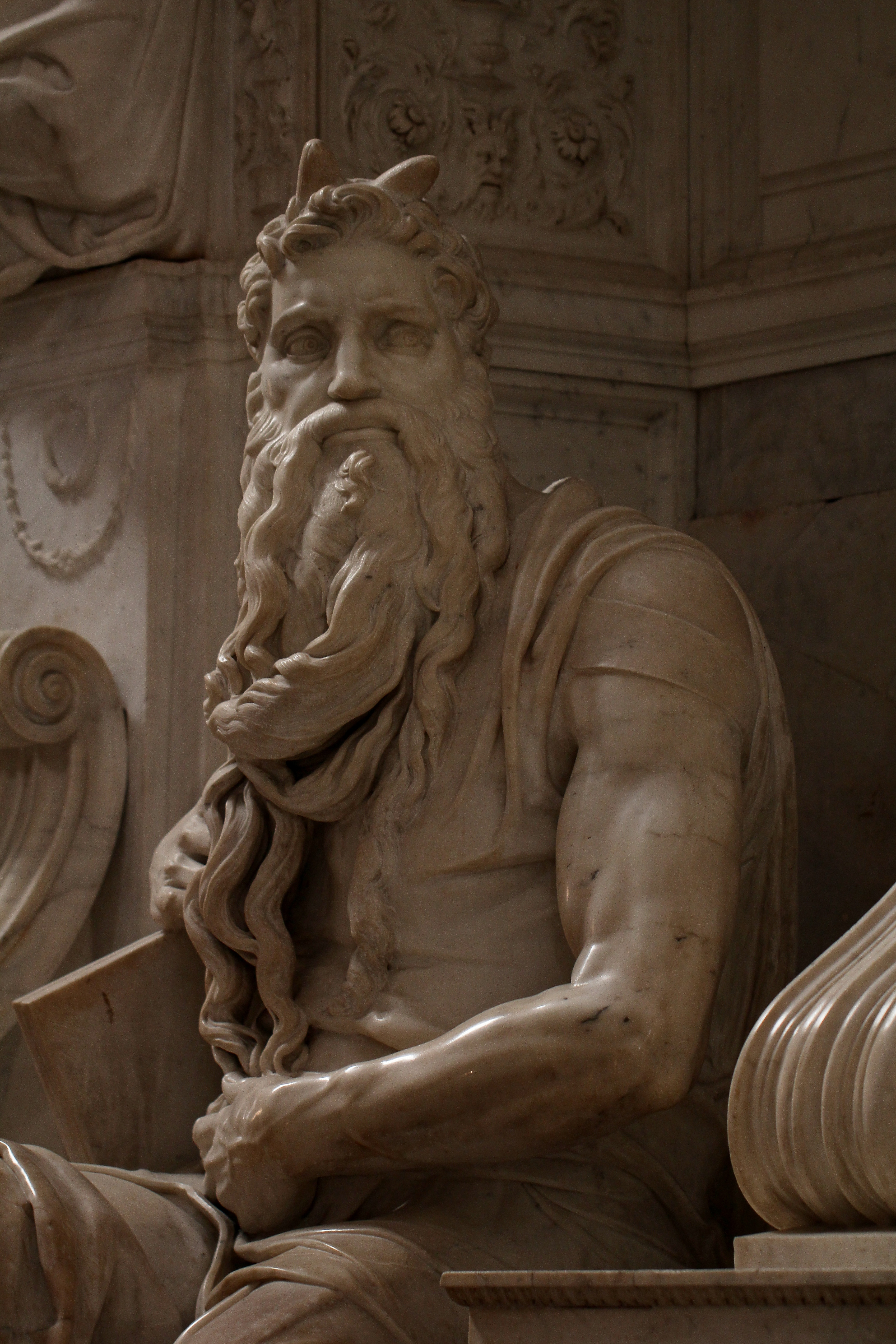 Moses by Michelangelo Buonarroti, Tomb (1505-1545) for Julius II, San Pietro in Vincoli (Rome)